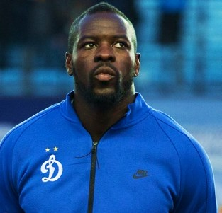 Christopher Samba